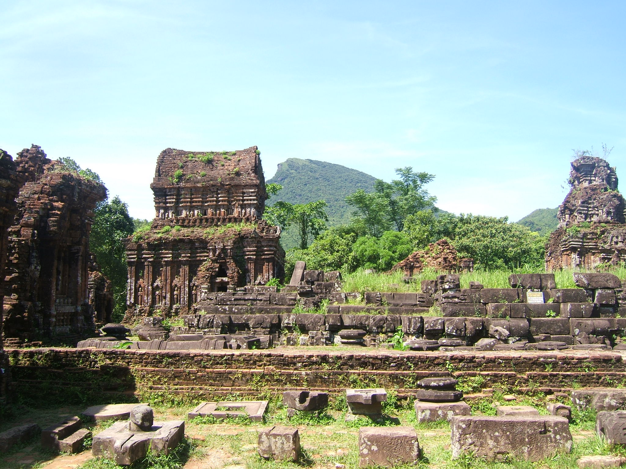 My Son towers